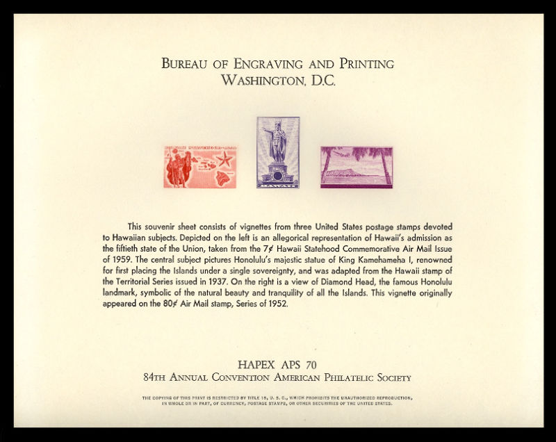 United States Souvenir Card issued by the Bureau of Engraving and Printing, Wаshington, D.C., for the HAPEX APS 70 exhibition and 84th Annual Convention of the American Philatelic Society in 1970. It contains vignettes from three United States postage stamps issued between 1937 and 1959